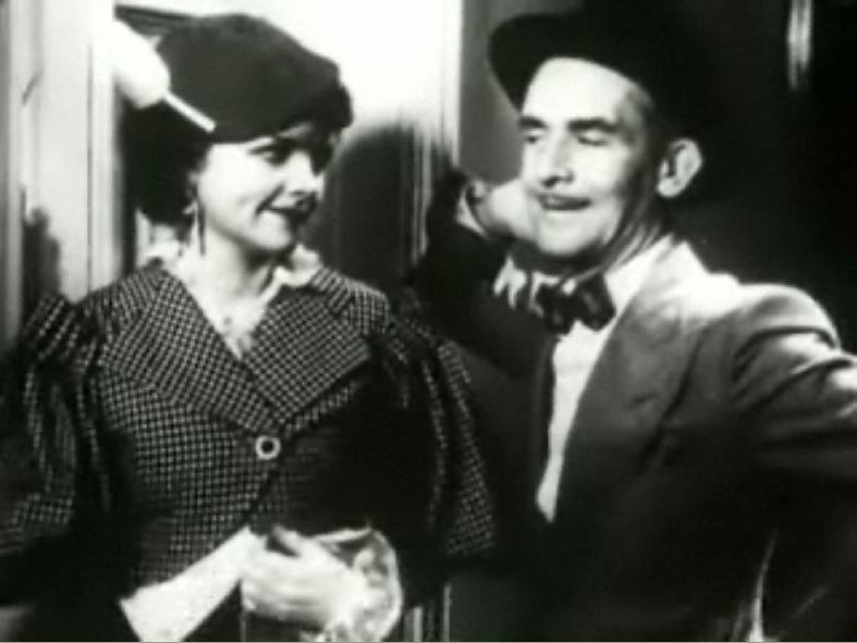 Screenshot of Pert Kelton and James Gleason from the trailer for the film The Meanest Gal in Town